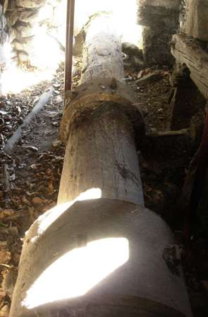 Shaft of the hammers of the old Forge at Bruzolo, Italy.